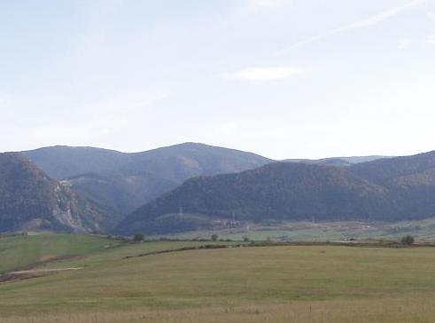 Dominantny Mincol od Ziliny